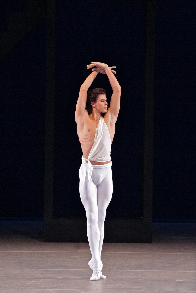 Artem Ovcharenko as Apollo Apollon Musagète by George Balanchine. Bolshoi Ballet, 05.10.2012.